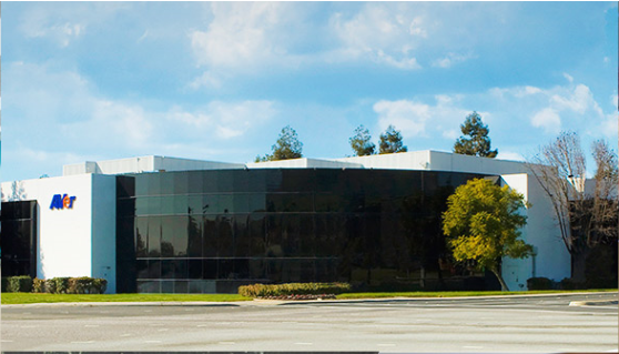 Fremont California Office